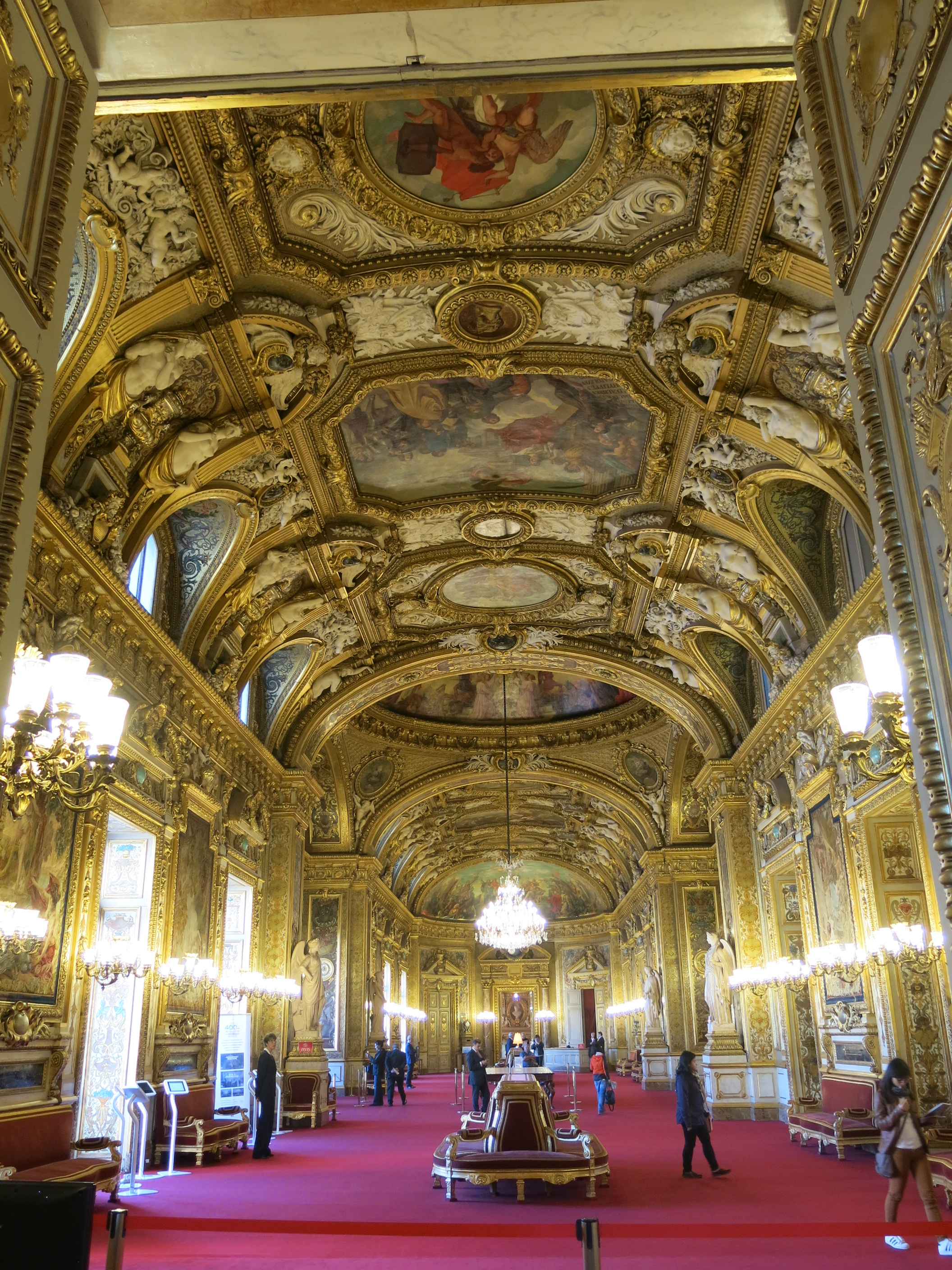 Conference hall of the Palais du Luxembourg (Paris, France). View to east.